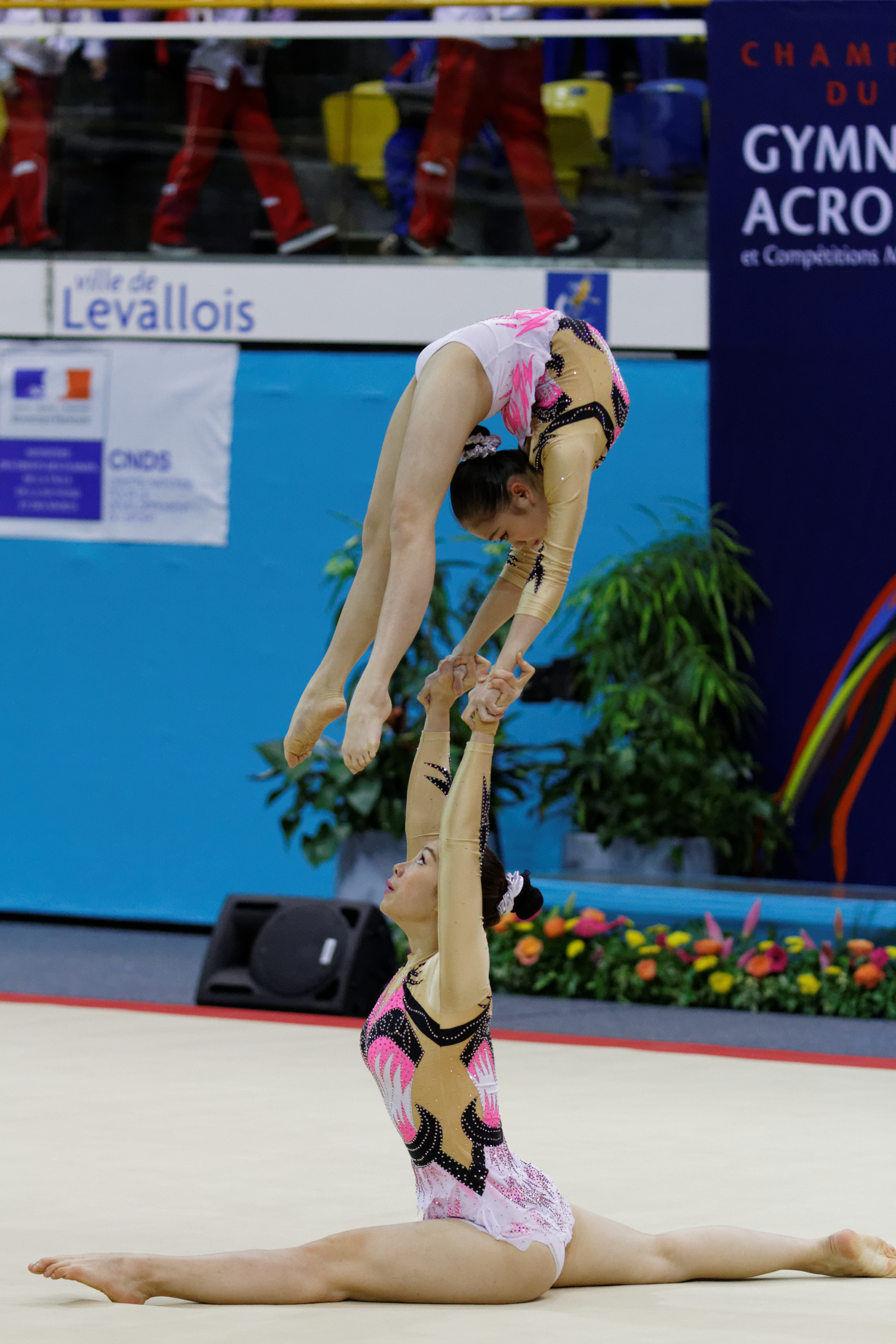 2014 Acrobatic Gymnastics World Championships, 10th-12 July, Levallois-Perret, France. Qualifications : women pair (combined). China.